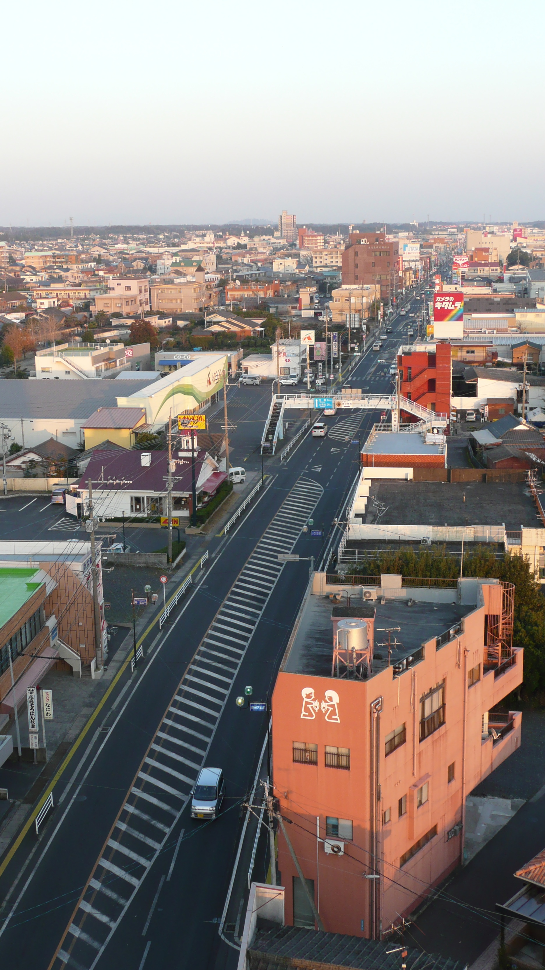 Kagoshima Prefectural Road 68 (Kotobuki, Kanoya City, Japan)